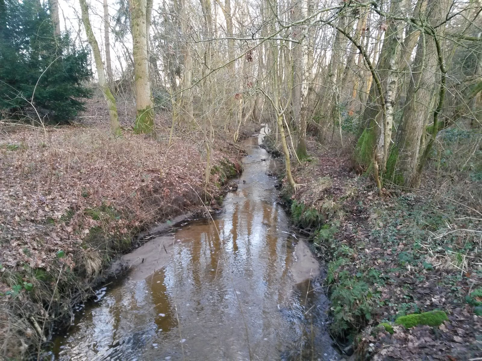 Dohrener Mühlenbach in Dohren